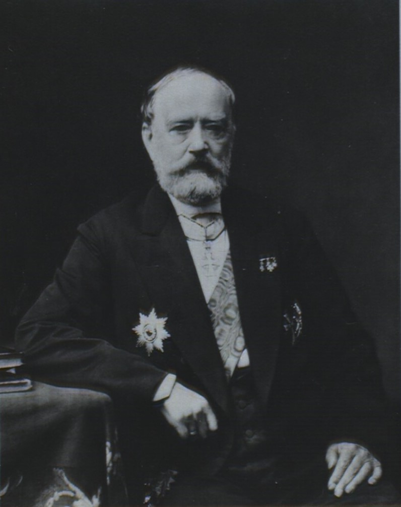 Otto Fredrik Suenson (1810-1888), Danish naval officer, Minister of the Royal Danish Navy, Member of the Danish Folketing and Landsting